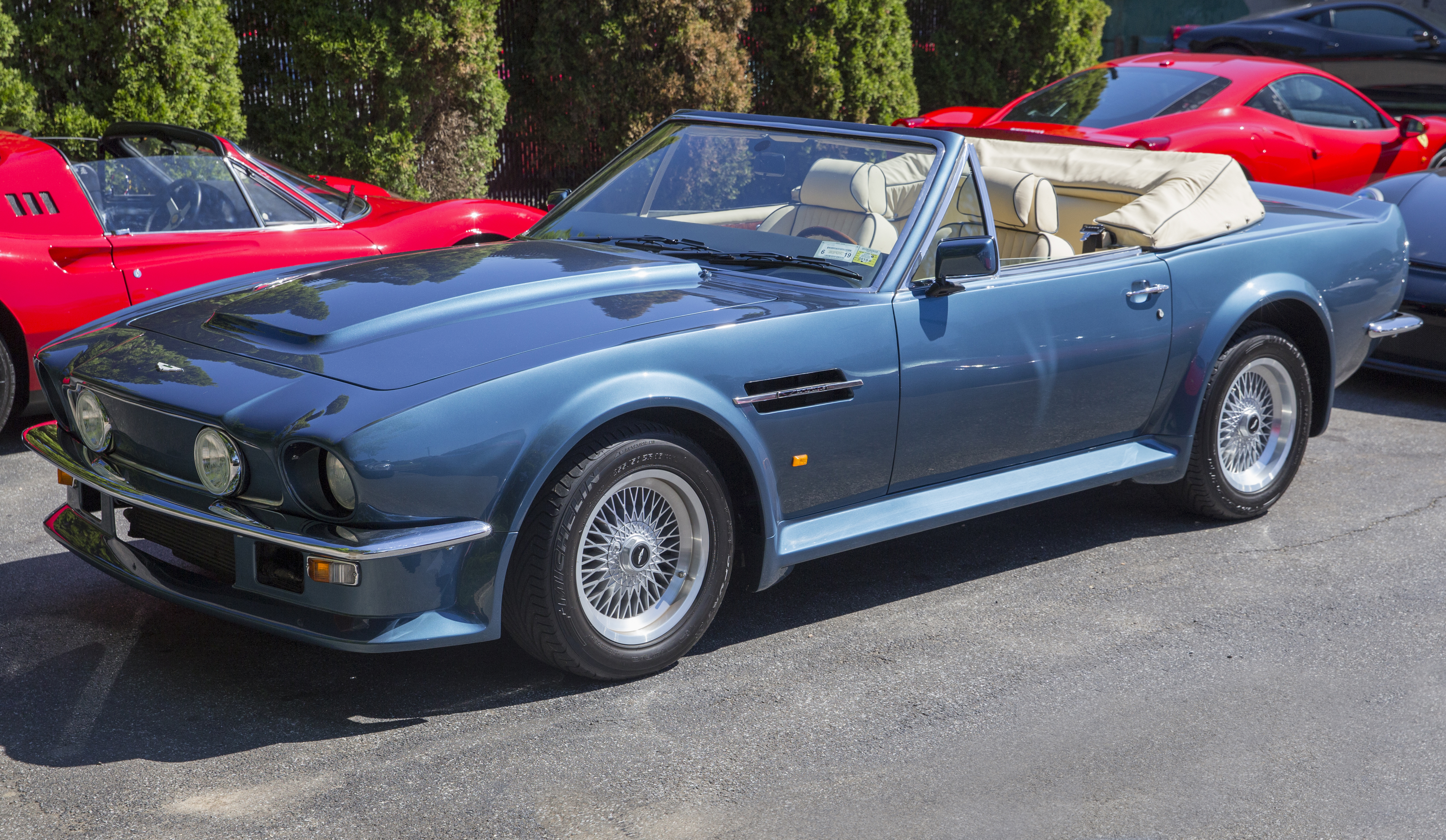 1990 Aston Martin V8 Vantage Volante at a Cars and Coffee at Autosports Designs in Huntington, NY (Long Island). Chichester Blue with blue-piped parchment leather interior, this very late car (I am guessing the tenth last Vantage Volante, so built late in 1989 - production was halted in December) is registered as an '89 in NYC. Its chassis number gained a check digit in crossing the Atlantic. Near perfect specs; five-speed and the 432hp X-pack engine. It was offered by Bonhams in the UK in 2008, at which time the car was RHD. At the time it had 29,500 miles and had been serviced in Kensington all its life. This car then travelled from the UK to NY in February 2016.